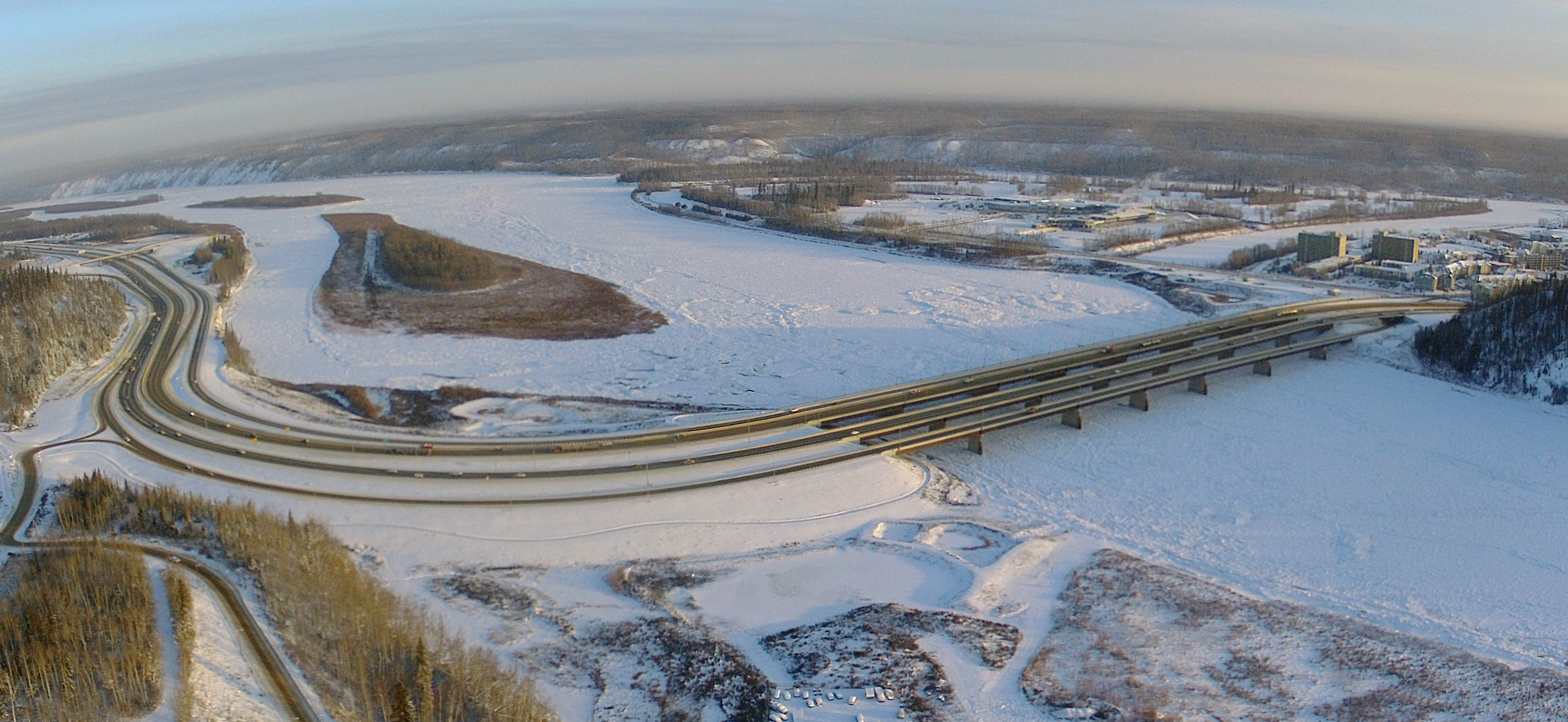 Bridges over the Athabasca River in Fort McMurray, Alberta, Canada.